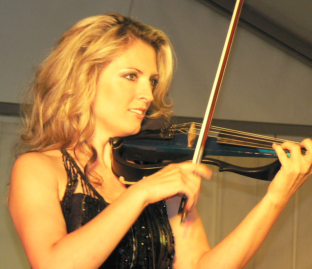 Princess - a zenekar egyik tagja (2011)